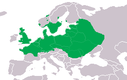 Distribution of Triturus cristatus, based on Nöllert/Nöllert: "Die Amphibien Europas"